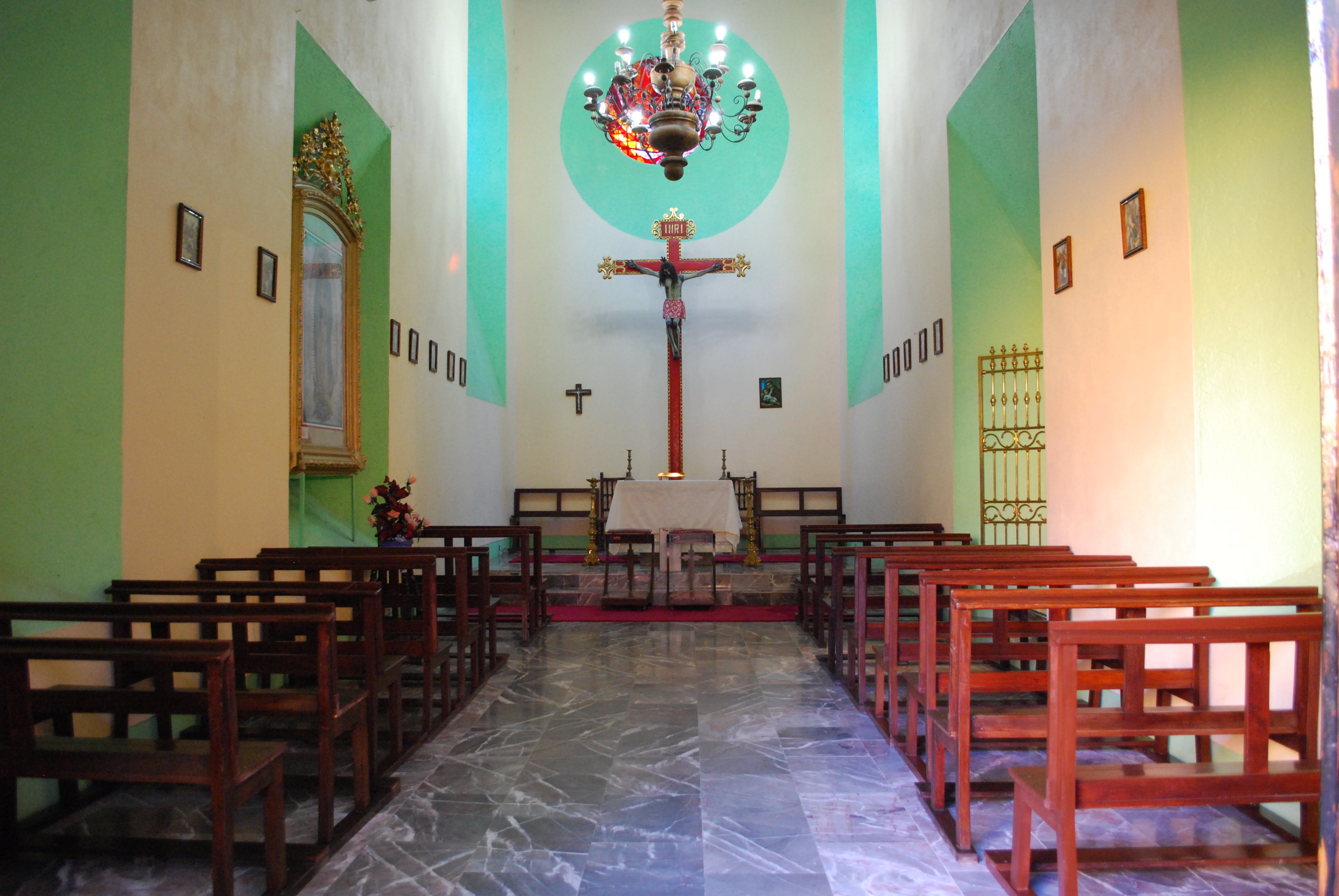 Main nave of the chapel inside the courtyard of the main house of the Chautla Hacienda, San Salavador el Verde, Puebla, Mexico